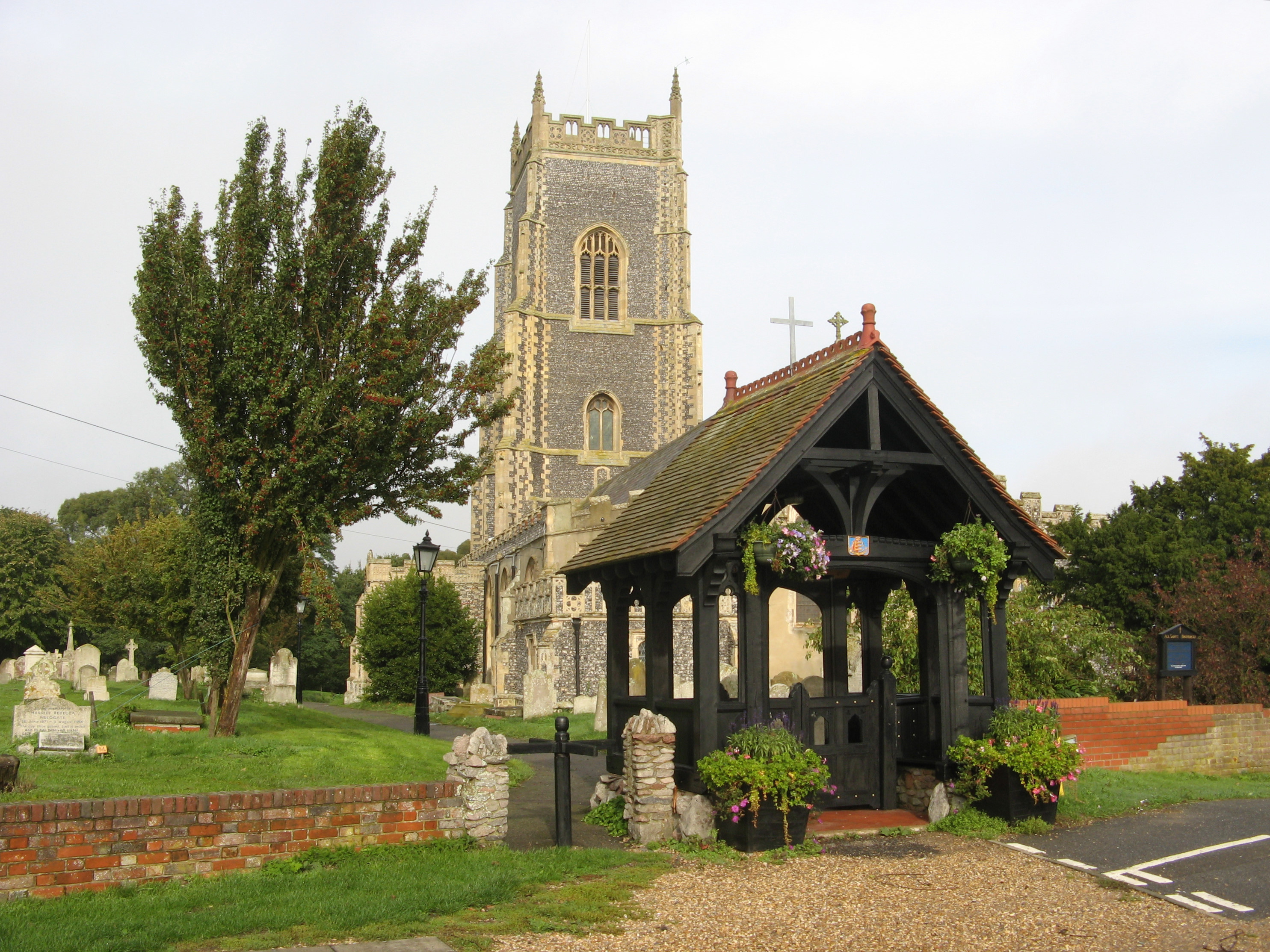 Tower and lychgate of All Saints' parish church, Brightlingsea, Essex, seen from the east